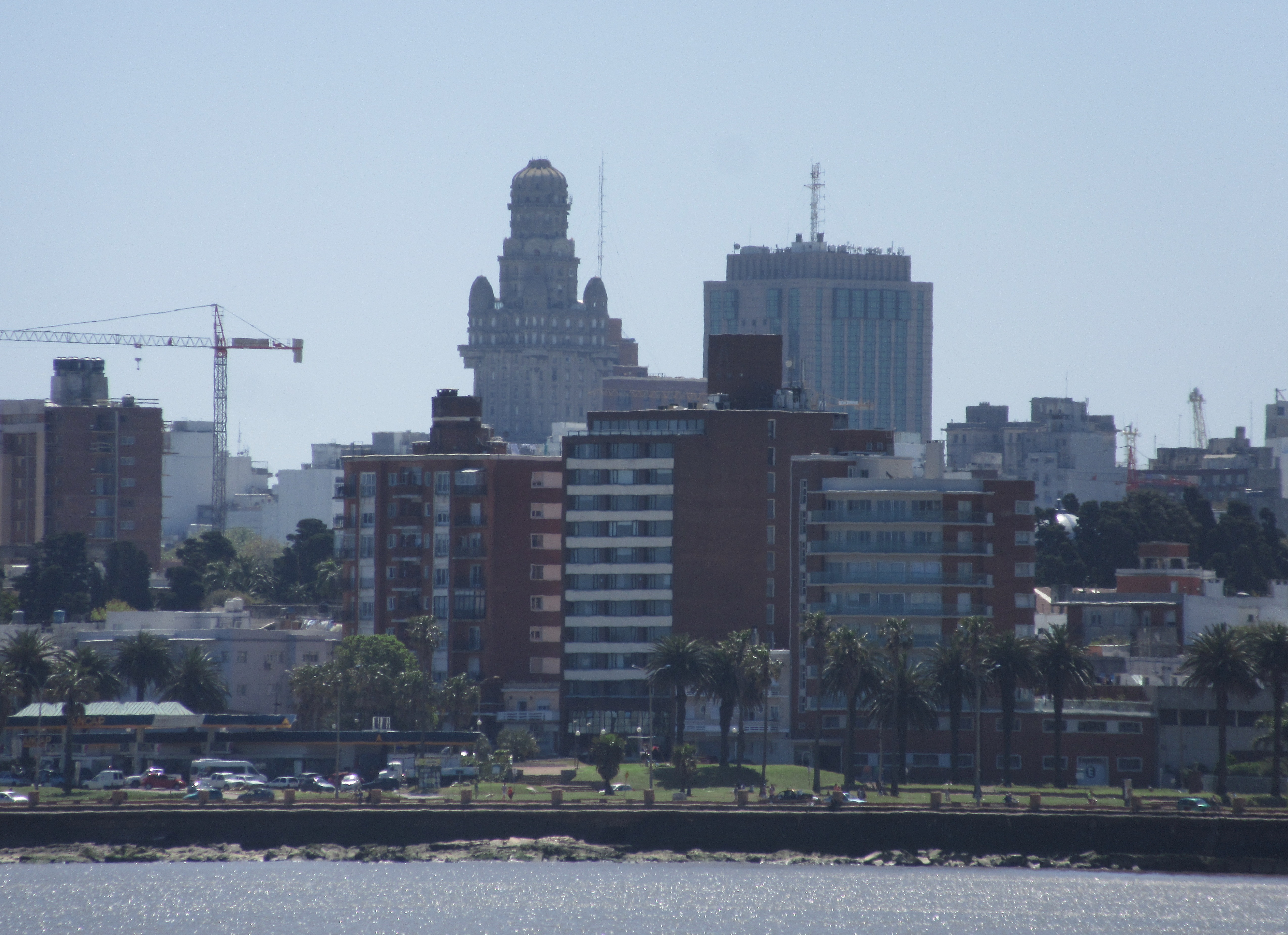 Montevideo